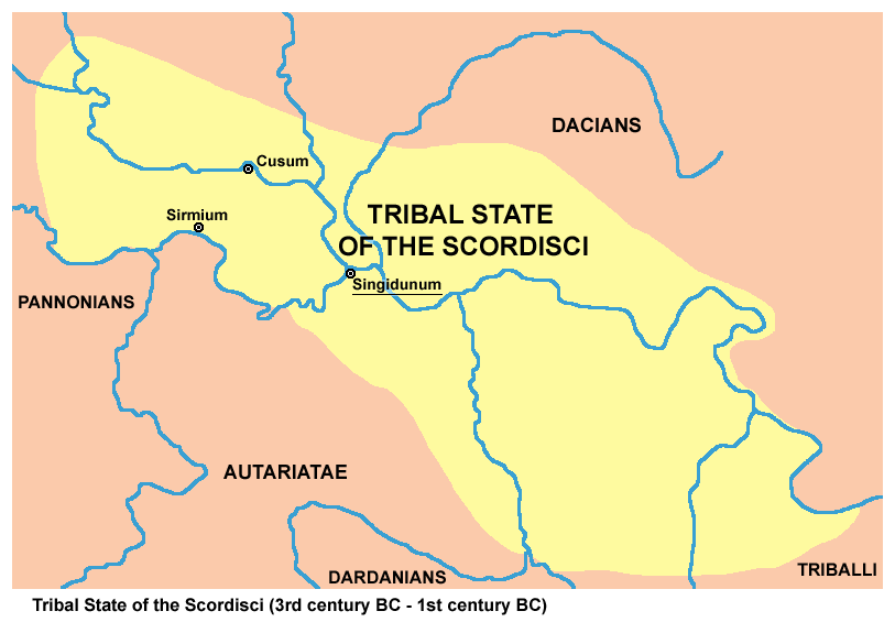 Tribal State of the Scordisci (3rd century BC - 1st century BC), with capital in Singidunum (present-day Belgrade).